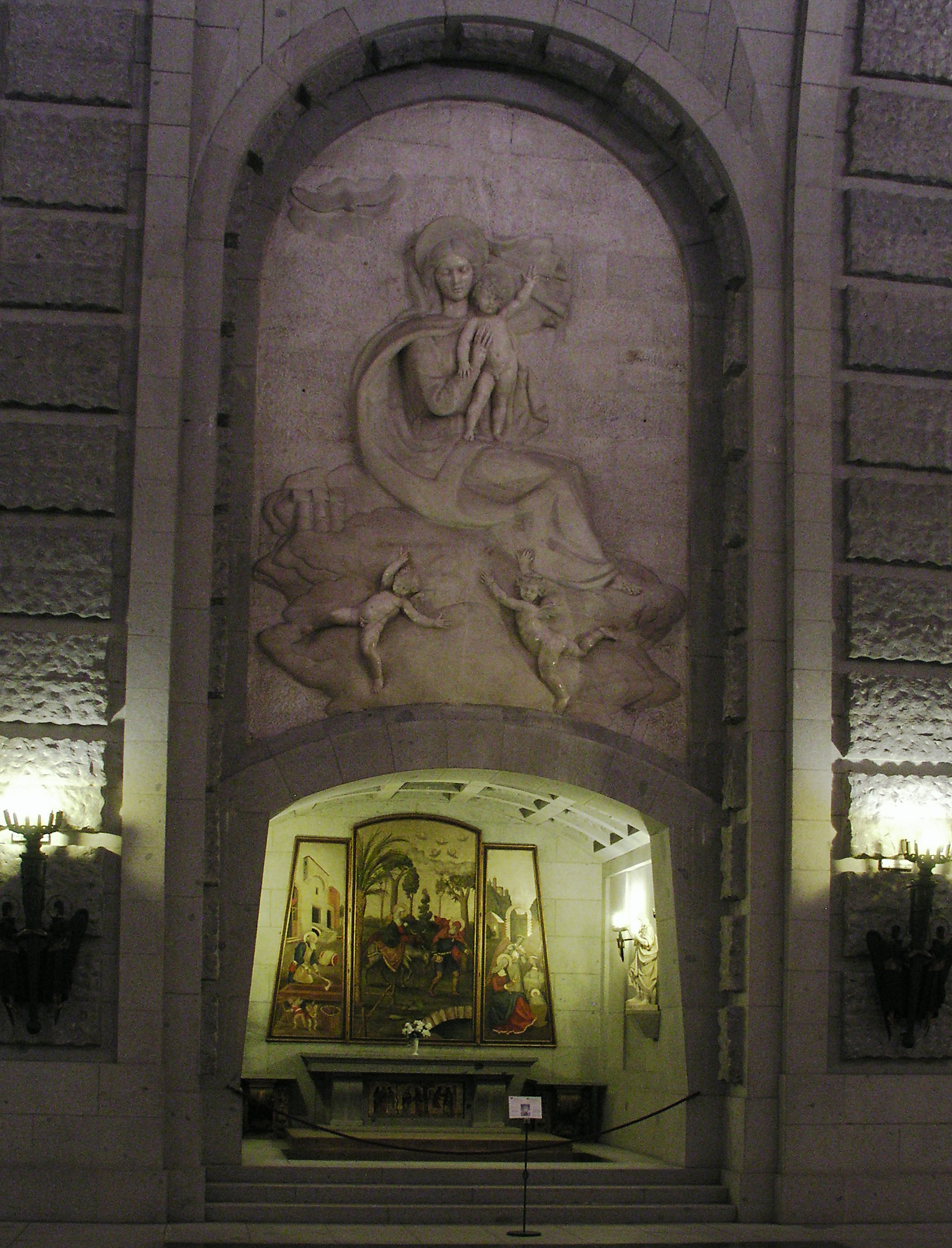 Valle de Los Caidos, Madrid, Spain. Statues in the great nave. Virgen de Loreto. The photo was taken by Håkan Svensson (Xauxa) the 15th of May, 2005.